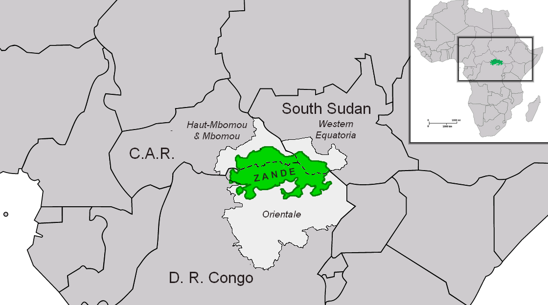 Location of Zandeland within Africa, with country subdivisions in which it is located highlighted. Of the Azande peoples.